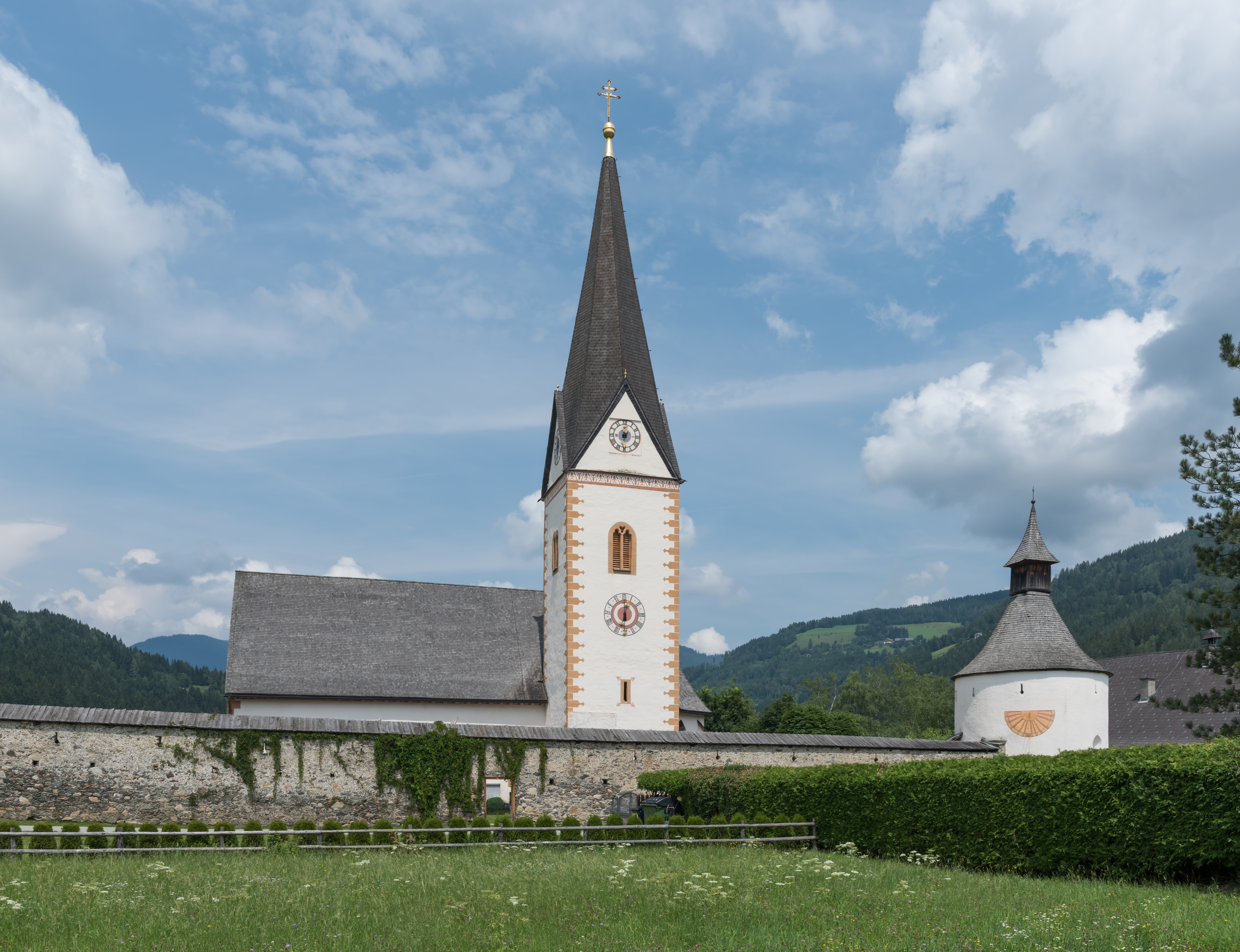 Parish church Saint Margaret, defense churchyard and charnel house in Gloednitz, municipality Glödnitz, district Sankt Veit, Carinthia, Austria, EU